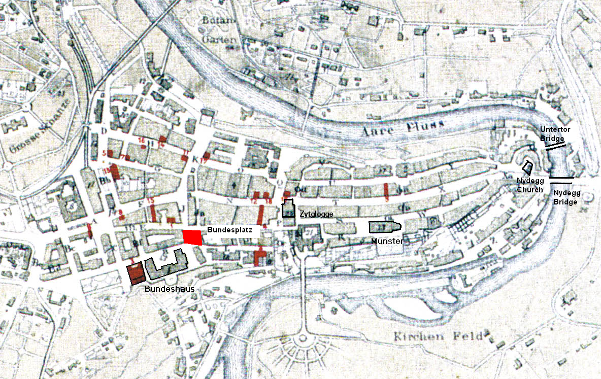 City plan of Bern, 1882. Scanned from BERN: Eine Stadt vor 100 Jahren, Bilder und Berichte; Peter Lauenberger, Emil Erne; München 1997; p. 7. Originally from Bern und seine Umgebungen, C.H. Mann, 1882 in the Alpines Museum of Bern. Due to the age of the image, it must be assumed that the author has been dead for more than 70 years. Copyright protection has therefore lapsed under Swiss copyright law (Art. 29 par. 3 URG).